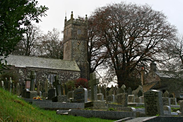 St Dominick Church The church dates from 1259 and underwent major restoration in the mid 19th century. I understand that the parish name is sometimes spelt "St Dominic", without the final K and that there is a move to make this official. I use the "ck" ending here as that is how it is shown on the Ordnance Survey map.